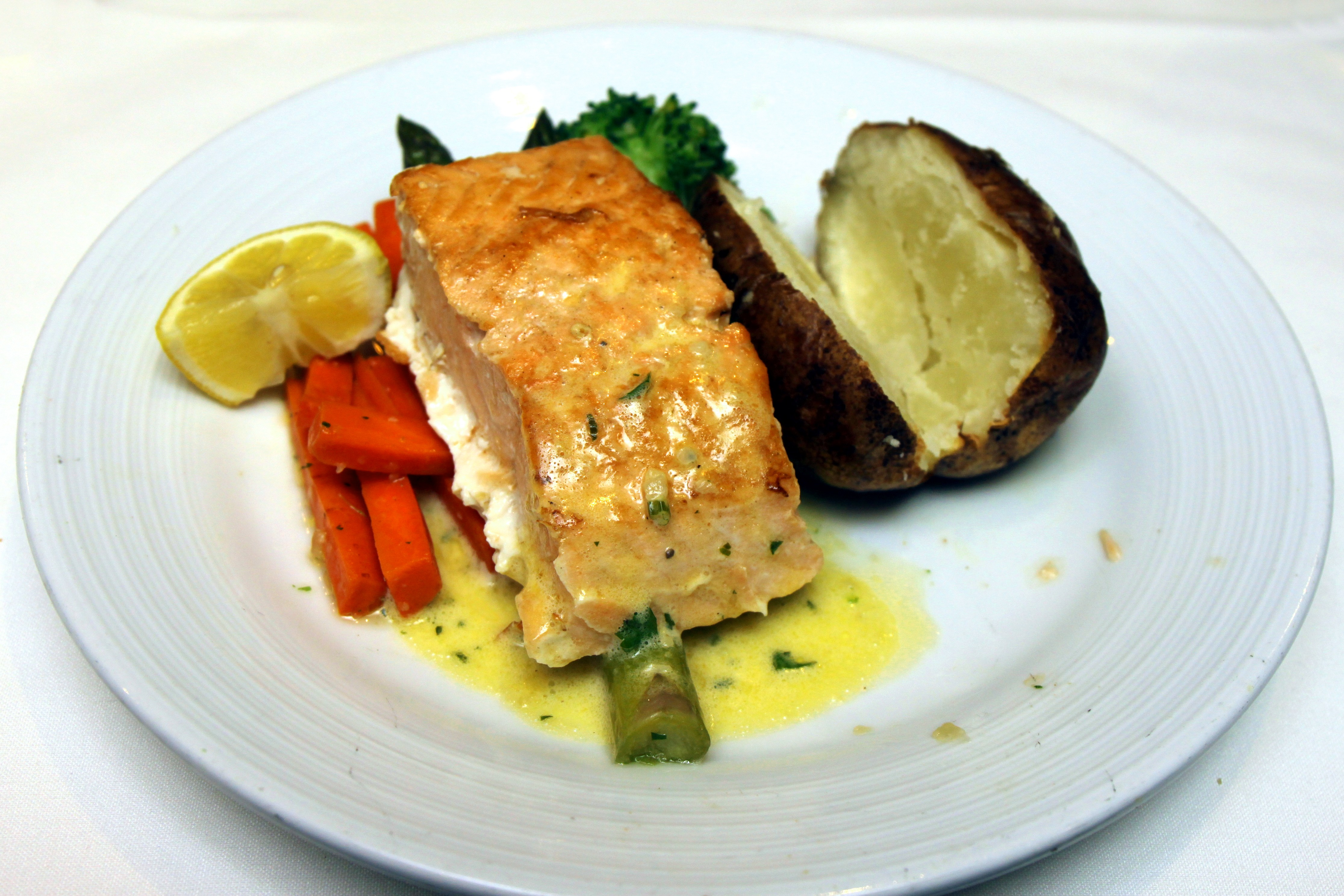 RCCL Radiance Of The Seas Cascades Dining Room